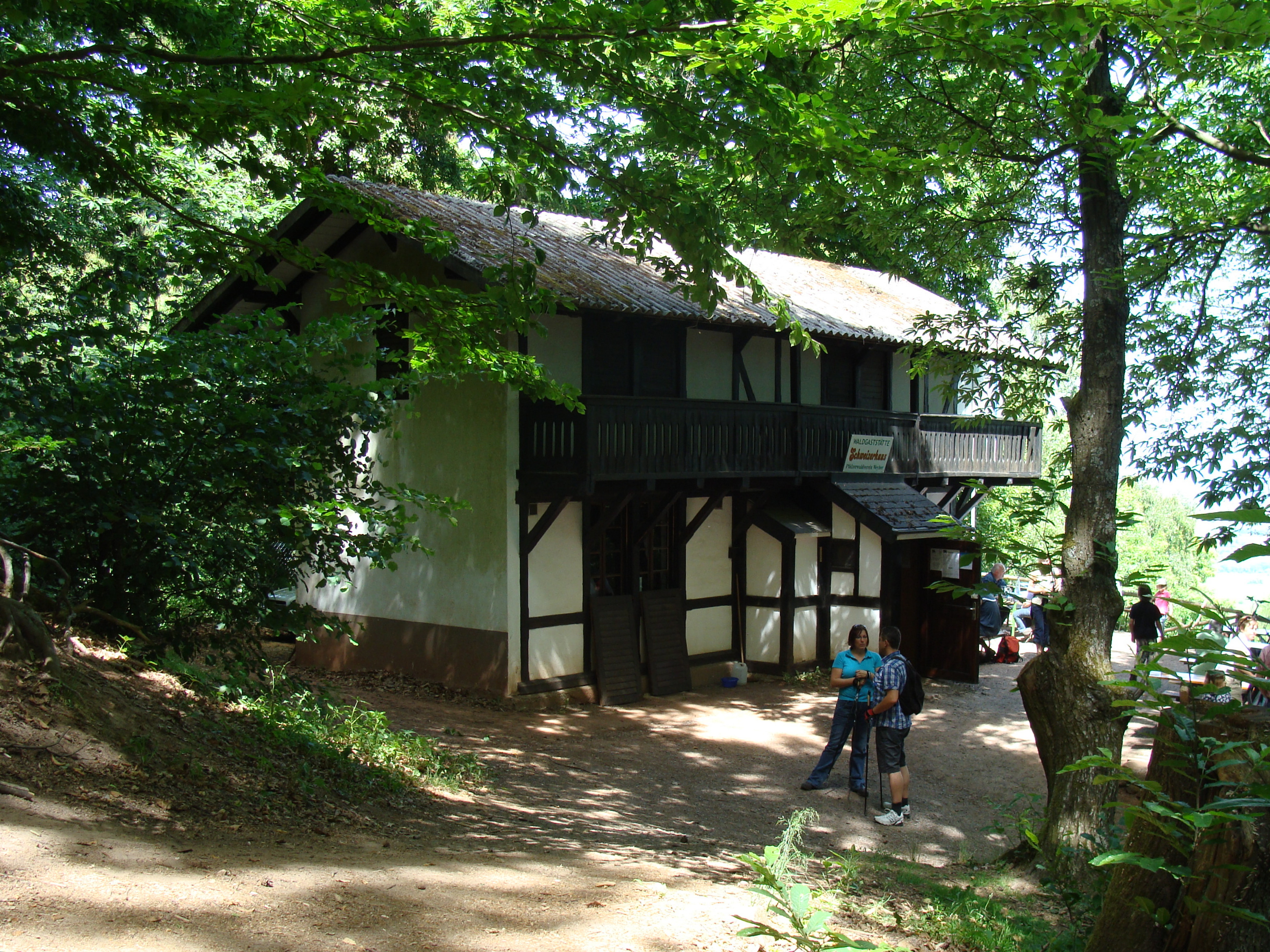 Hut Schweizerhaus near Weyher in palatinate forest